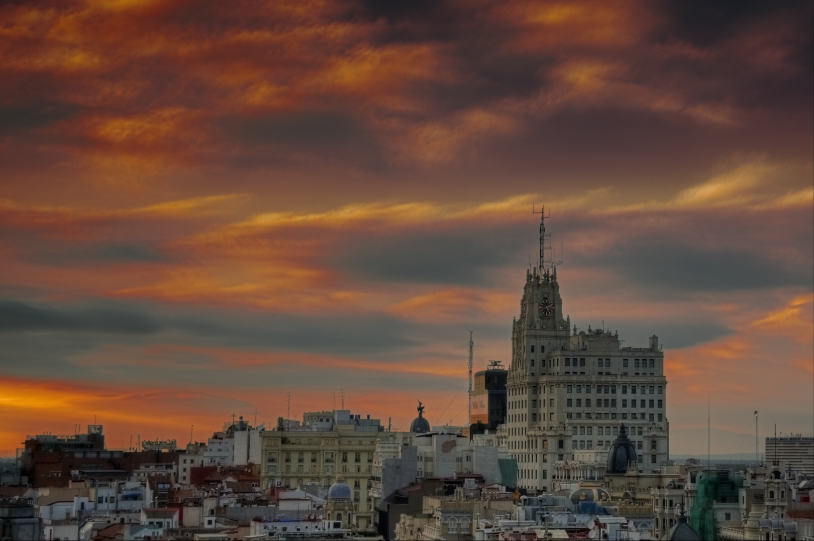 Sunset in Centro district in Madrid (Spain). At the right, Telefónica Building.